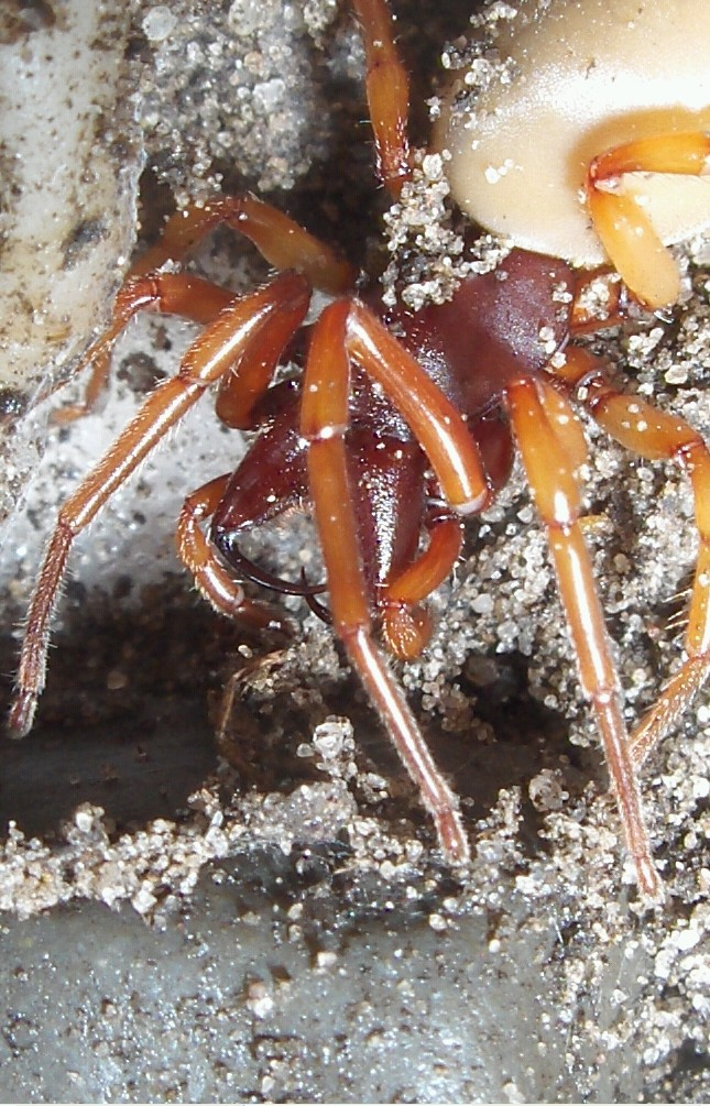 tanden van de roodwitte celspin (Dysdera crocata: Dysderidae) fangs of the woodlouse spider made by Tom Van Deuren